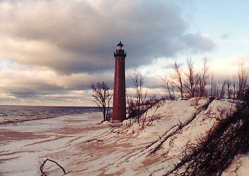 The Little Sable Point Light Station on Lake Michigan in Oceana County, Michigan, United States, is listed on the US National Register of Historic Places (NRHP).NRHP reference number 84001827